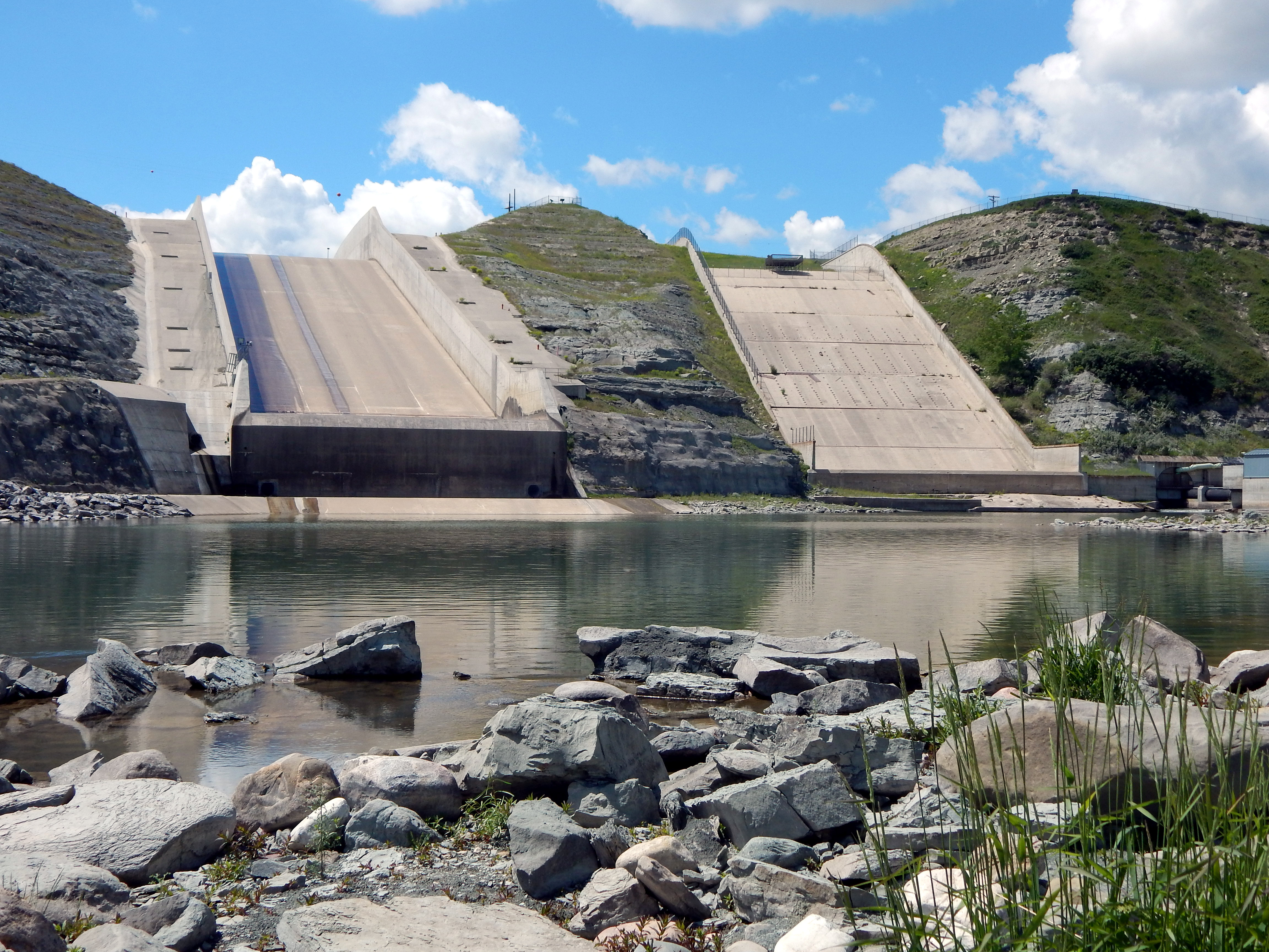 The abandoned 1951 spillway (right) and the replacement 2000 spilway (left) at St. Mary Reservoir, Alberta.